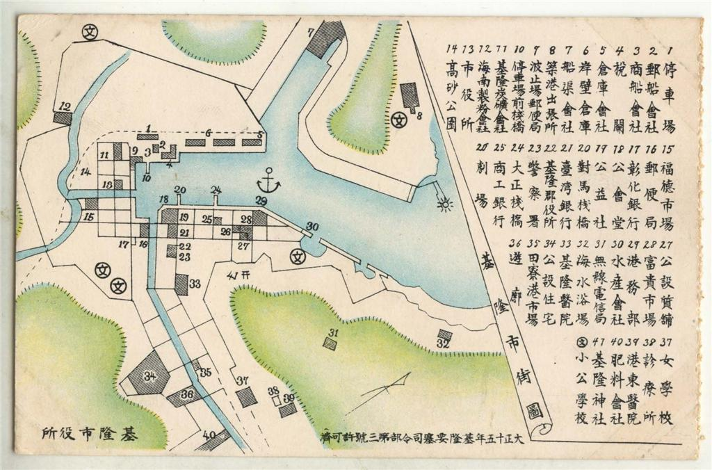 map of Kiirun(Keelung) City